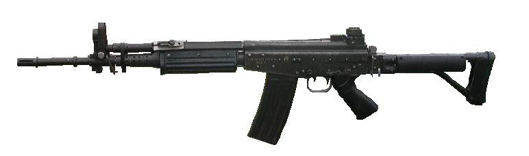 I take it myself in the army expo.